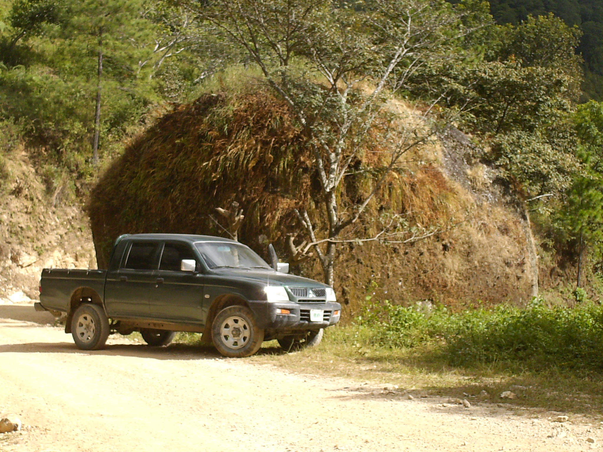 Piraera, municipality in the Honduran department of Lempira.